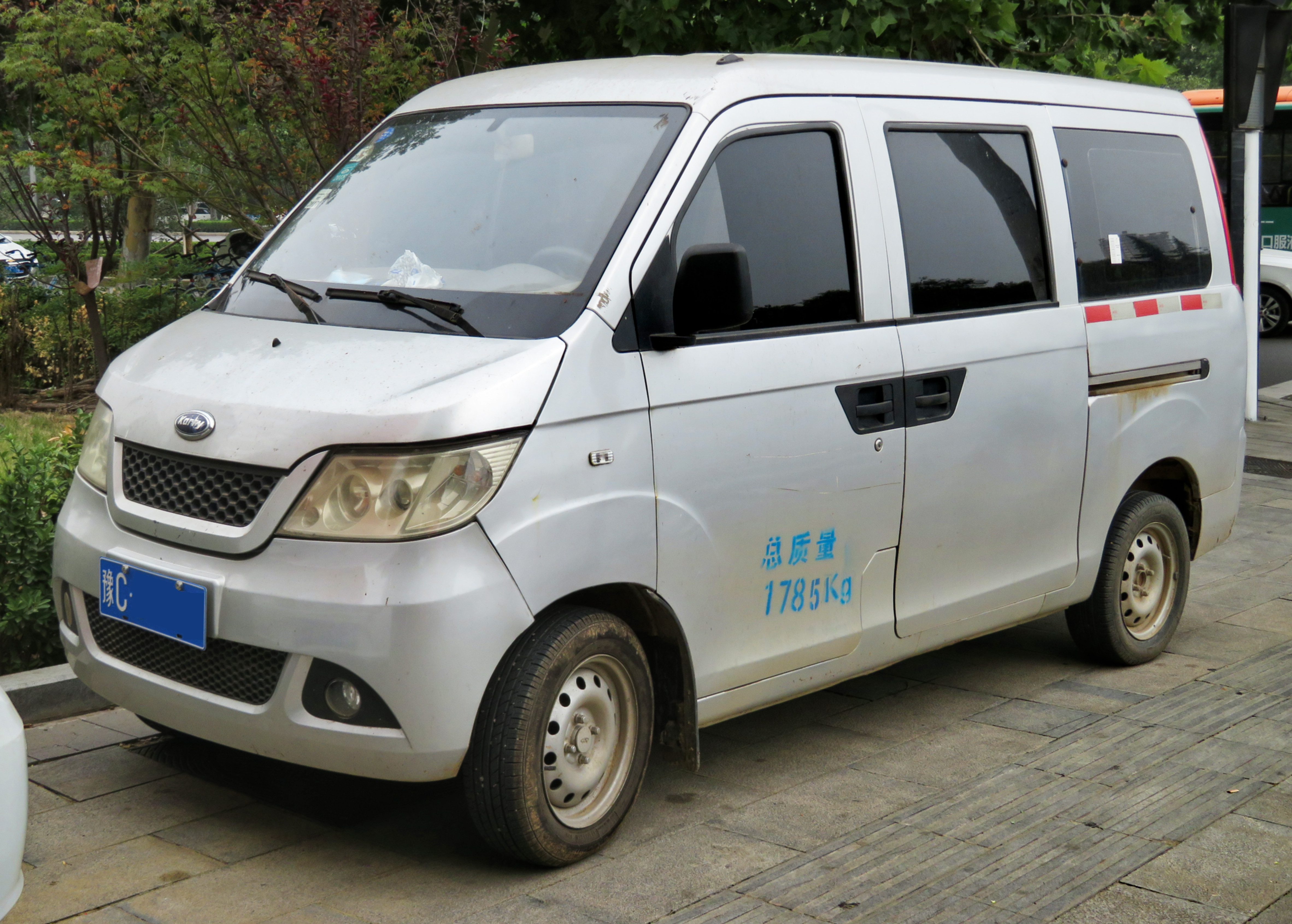 2010 Chery Karry Youyou photographed in Luolong District, Luoyang, Henan province, China